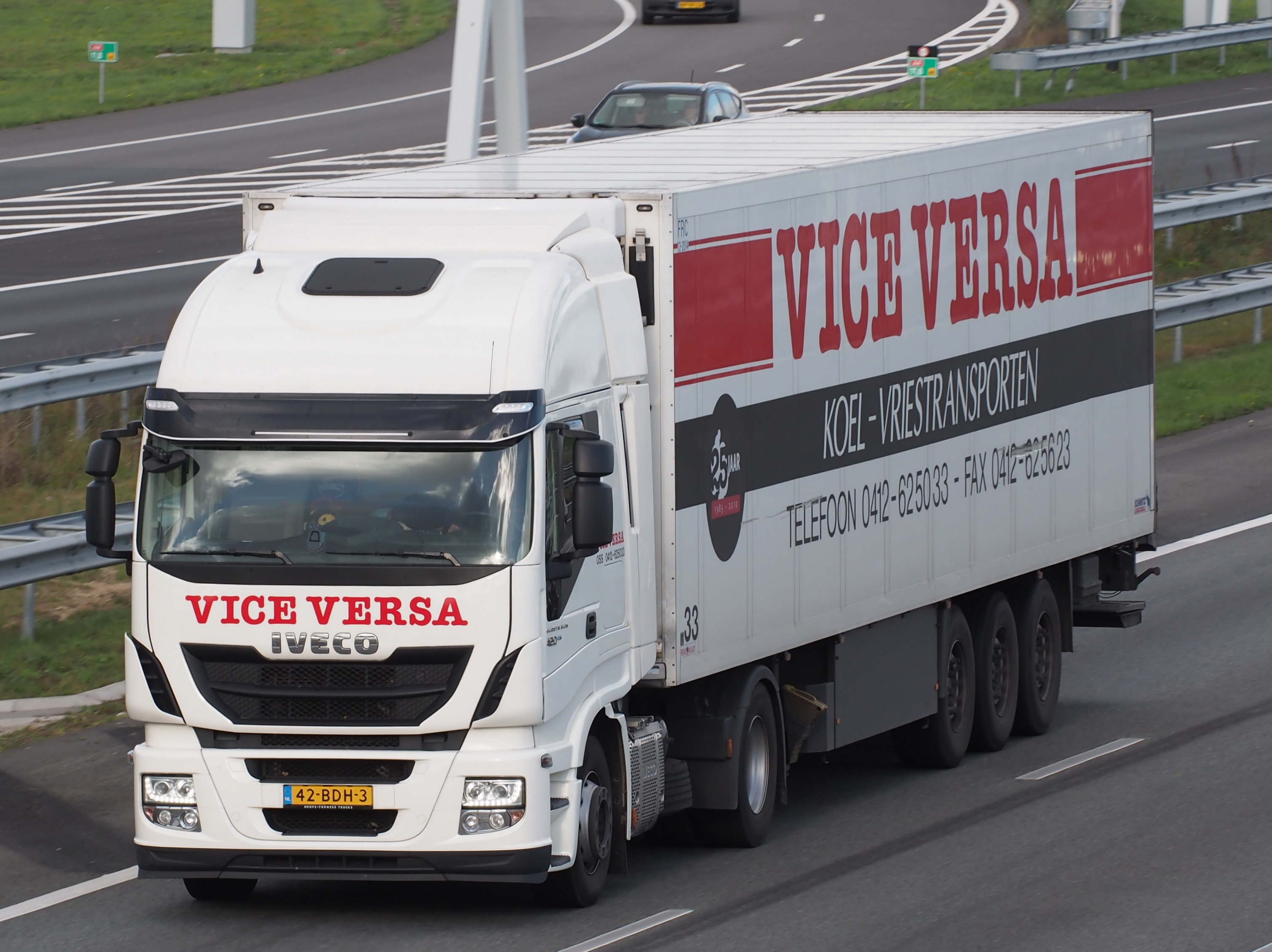 Photographed in Port of Amsterdam, The Netherlands.